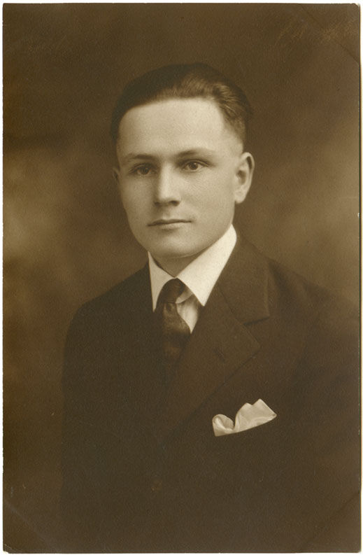 Senior photo of my grandfather, Raymon Dunahee, c.1920.